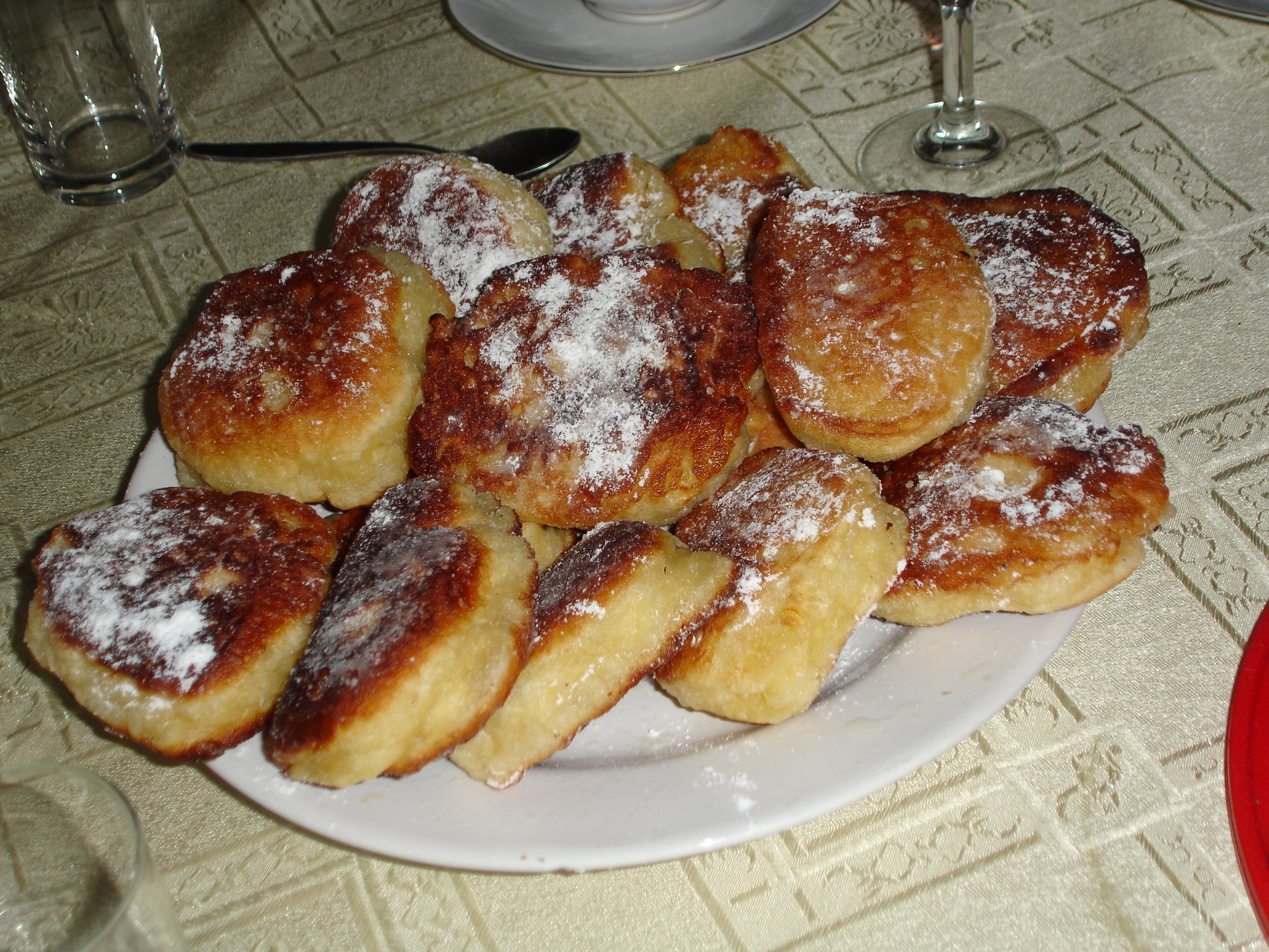 Racuchy – polish pastries with powdered sugar